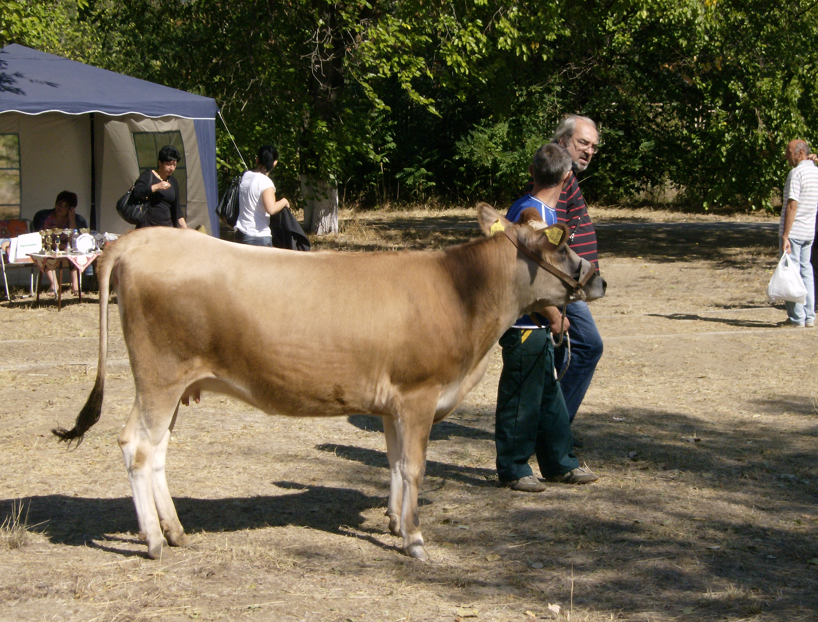 Rhodope Cattle